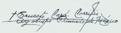 Signature of Ernesto Cardenal Corripio y Ahumada